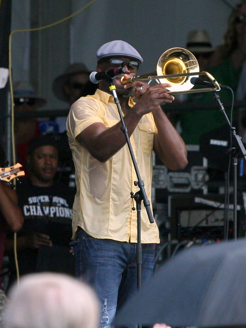 Big Sam's Funky Nation at JazzFest 2012 Congo Square Stage Saturday, May 5